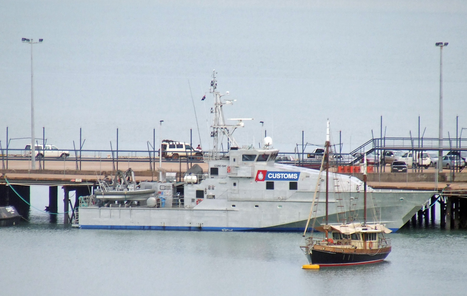 Australian Customs Vessel Corio Bay docked at Stokes Hill Wharf in Darwin, Northern Territory.